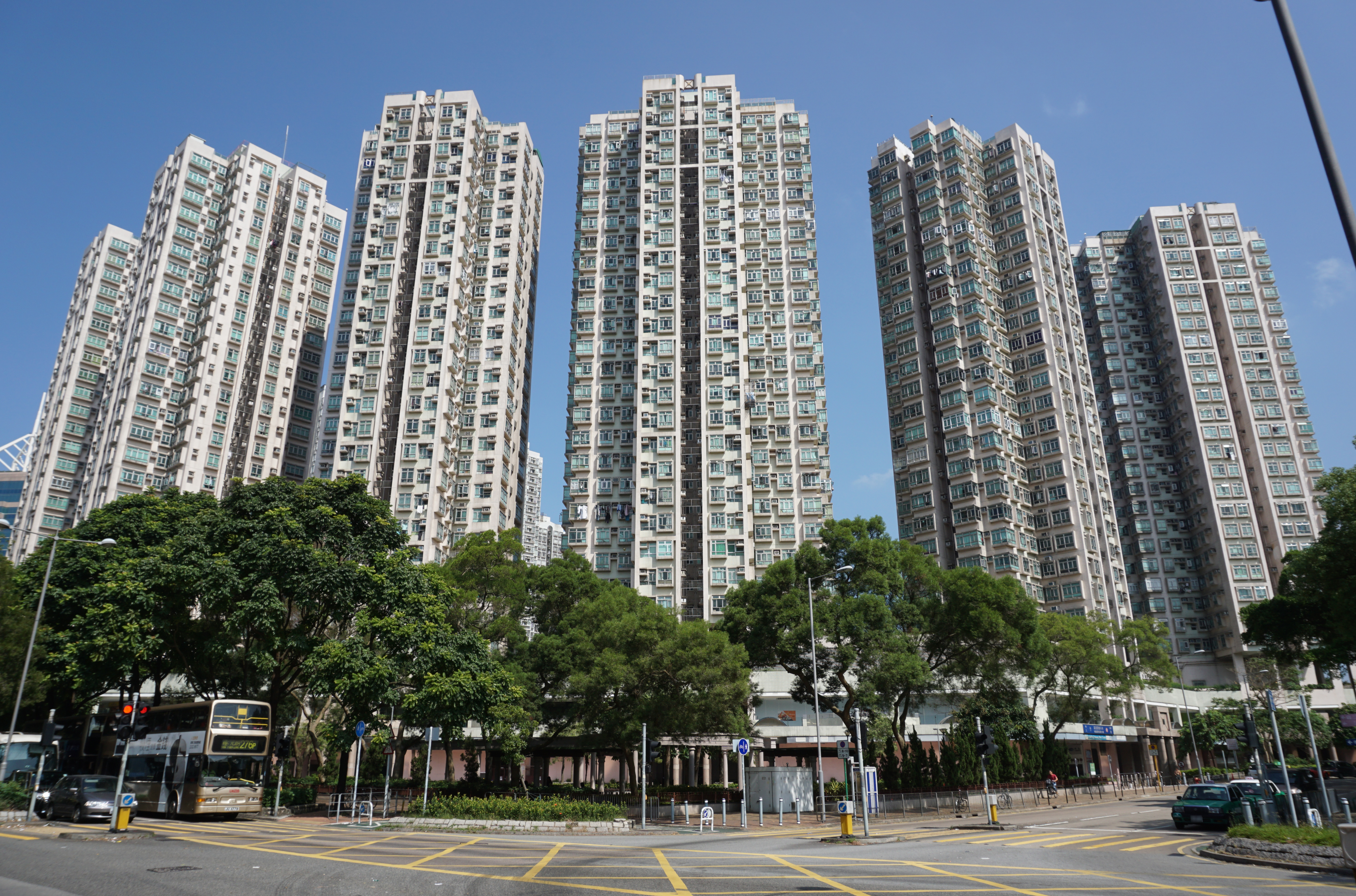 Sheung Shui Centre in North District, Hong Kong.